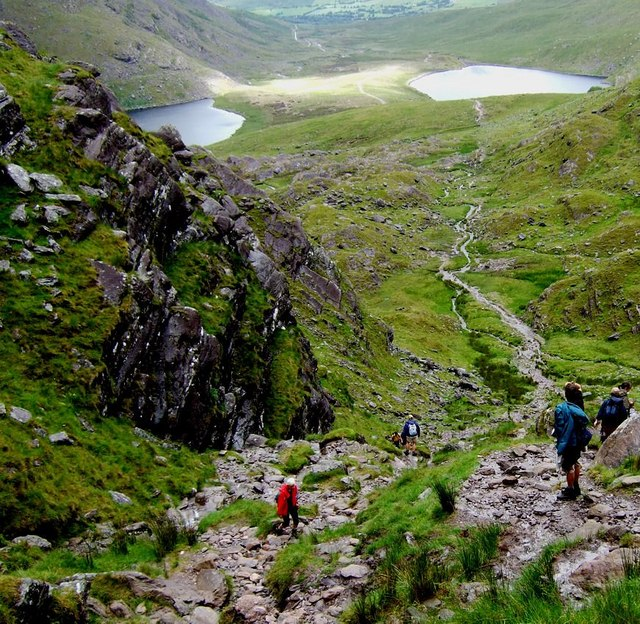 Looking down the Devil's Ladder A narrow gorge in the hill leading up to Carrantouhill Mountain (the highest mountain in Ireland) - a long hard climb rising from 400m to 723m.